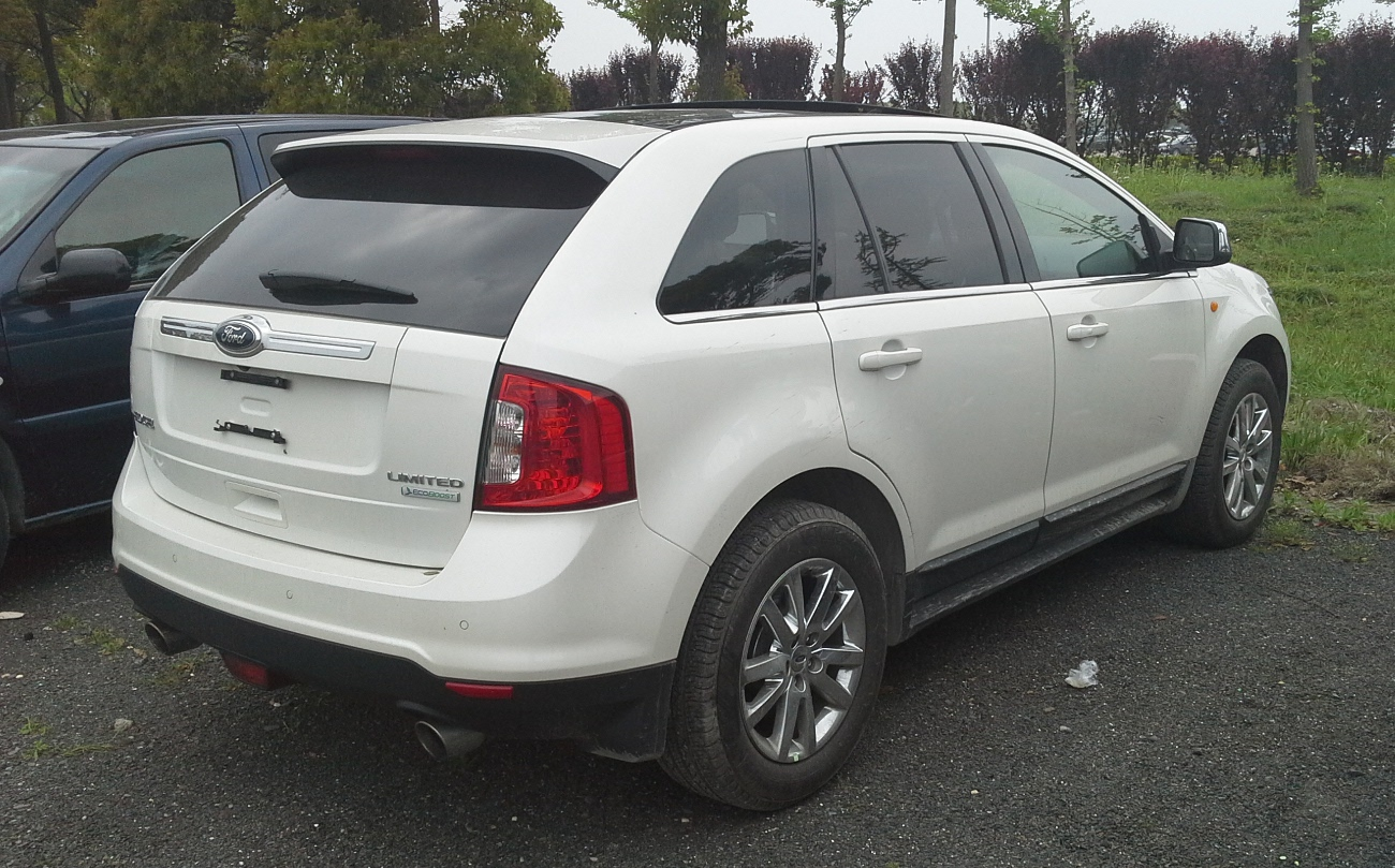 Ford Edge facelift photographed in Anting, Shanghai municipality, China.